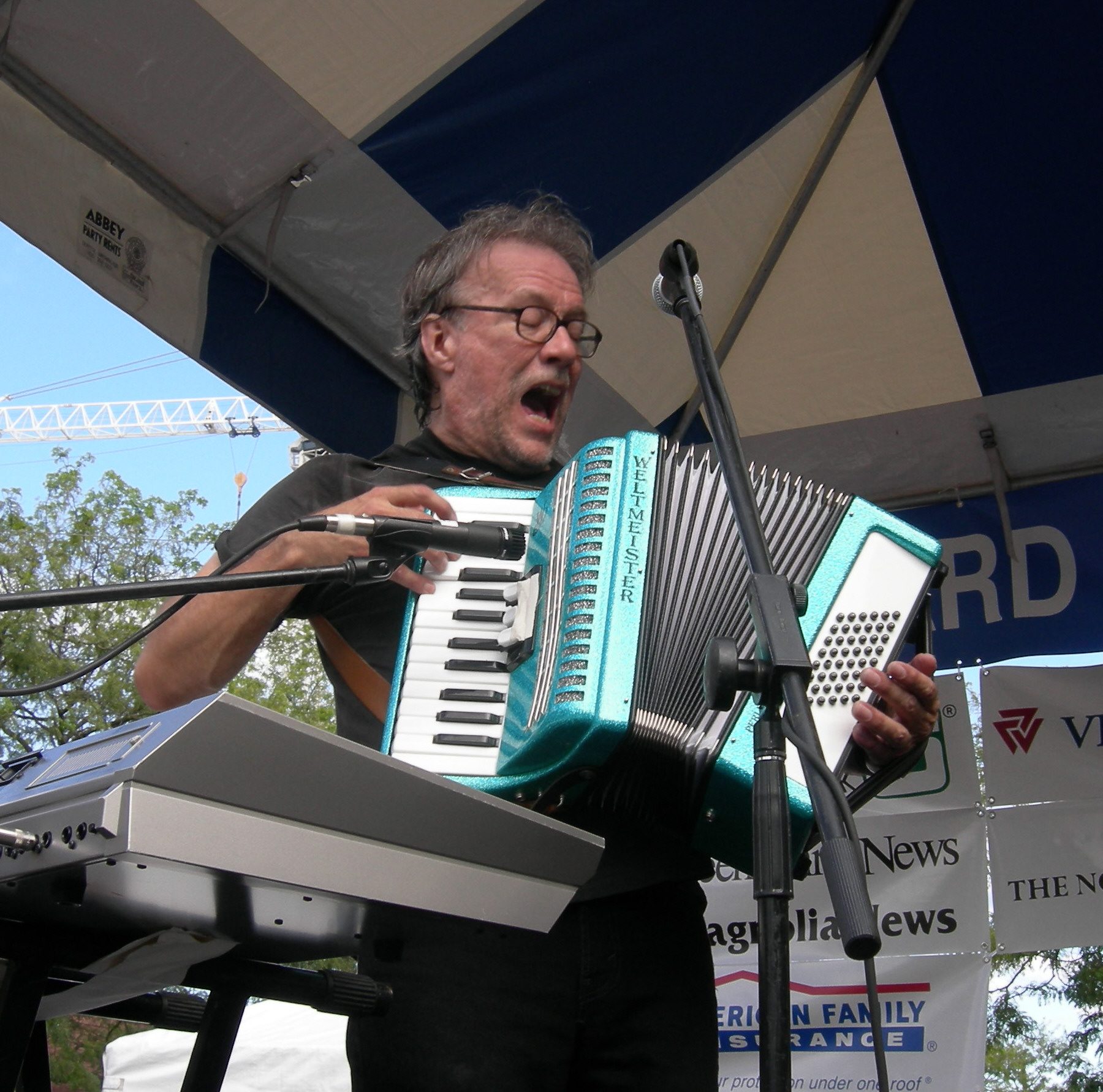 Multi-instrumentalist Carl Finch (mainly keyboards and accordion) of the Texas band Brave Combo, playing at the Ballard Seafood Fest (in the Ballard neighborhood of Seattle, Washington).